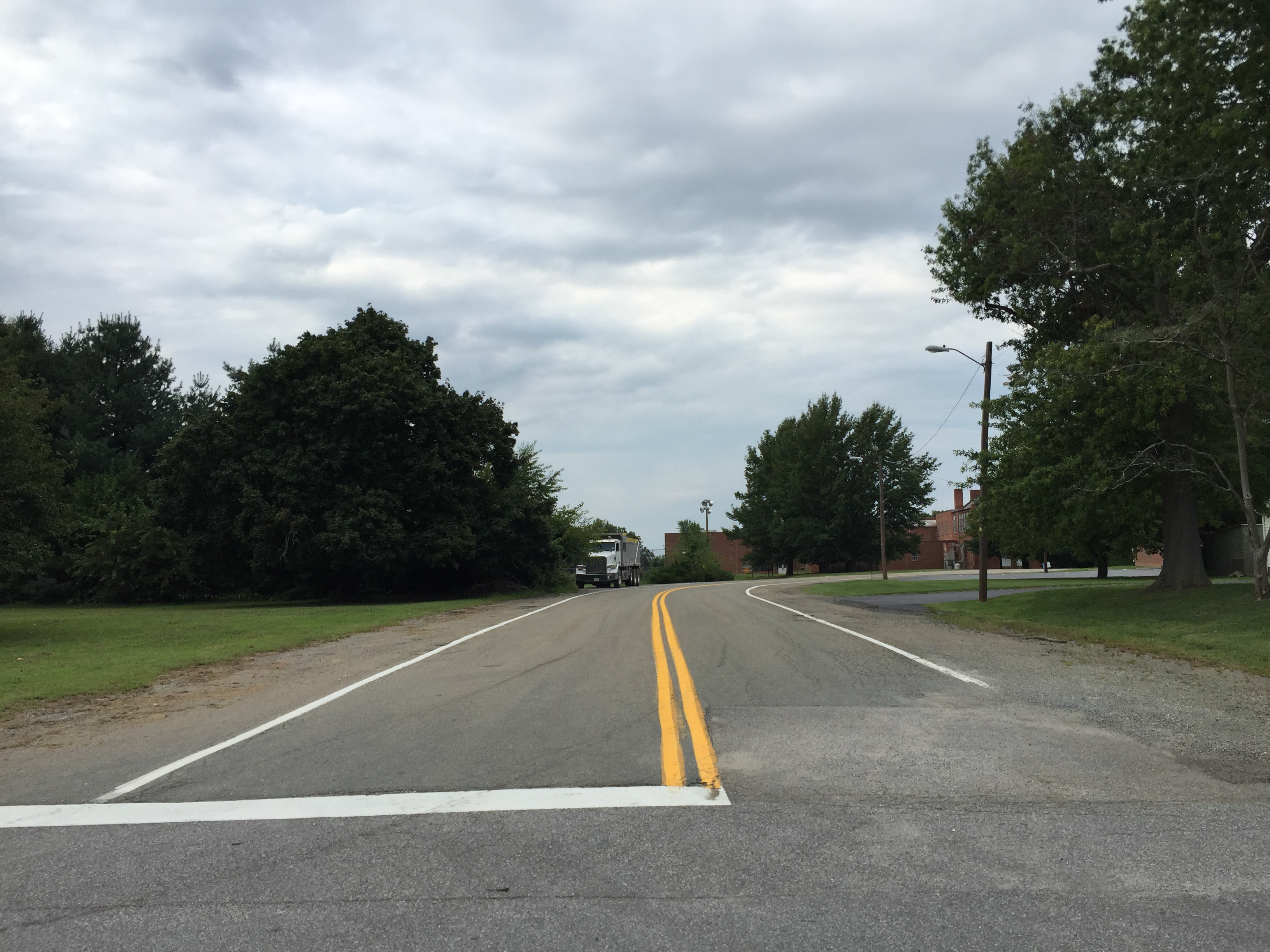 View north along Maryland State Route 837 (Church Circle) at Maryland State Route 300 (Main Street) in Sudlersville, Queen Anne's County, Maryland